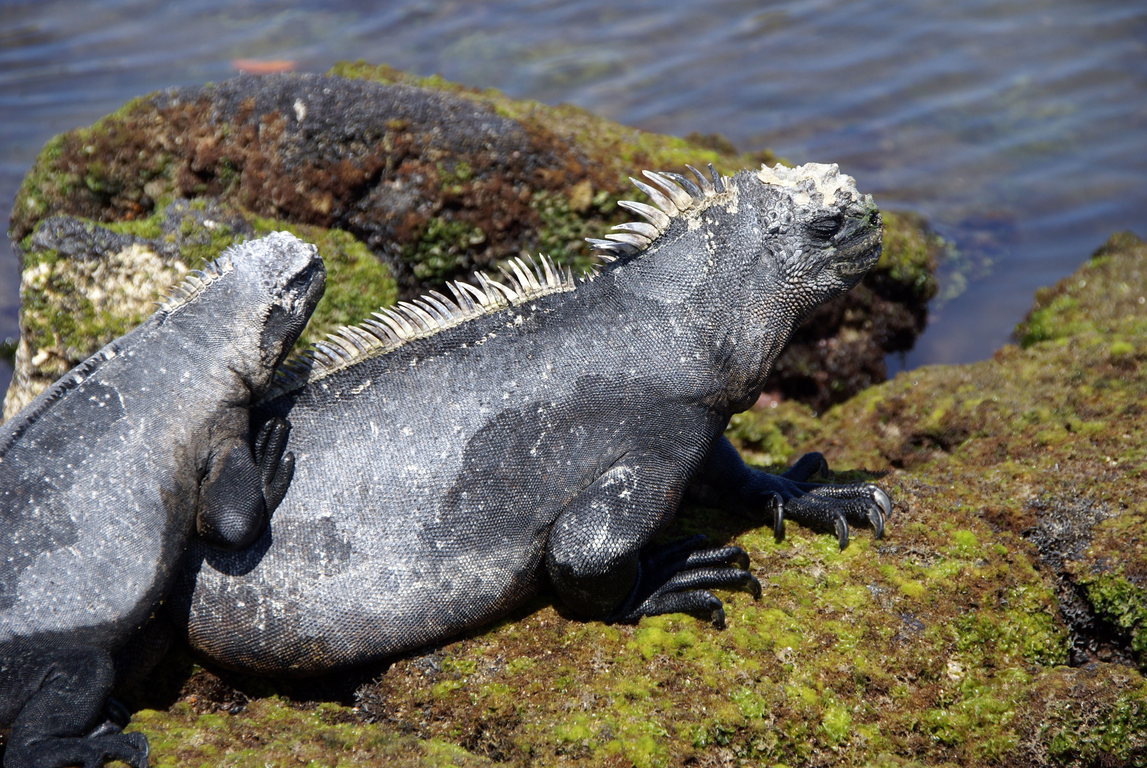 Marine Iguanas (Amblyrhynchus cristatus) at Punta Espinosa, Fernandina island (Galapagos Islands).